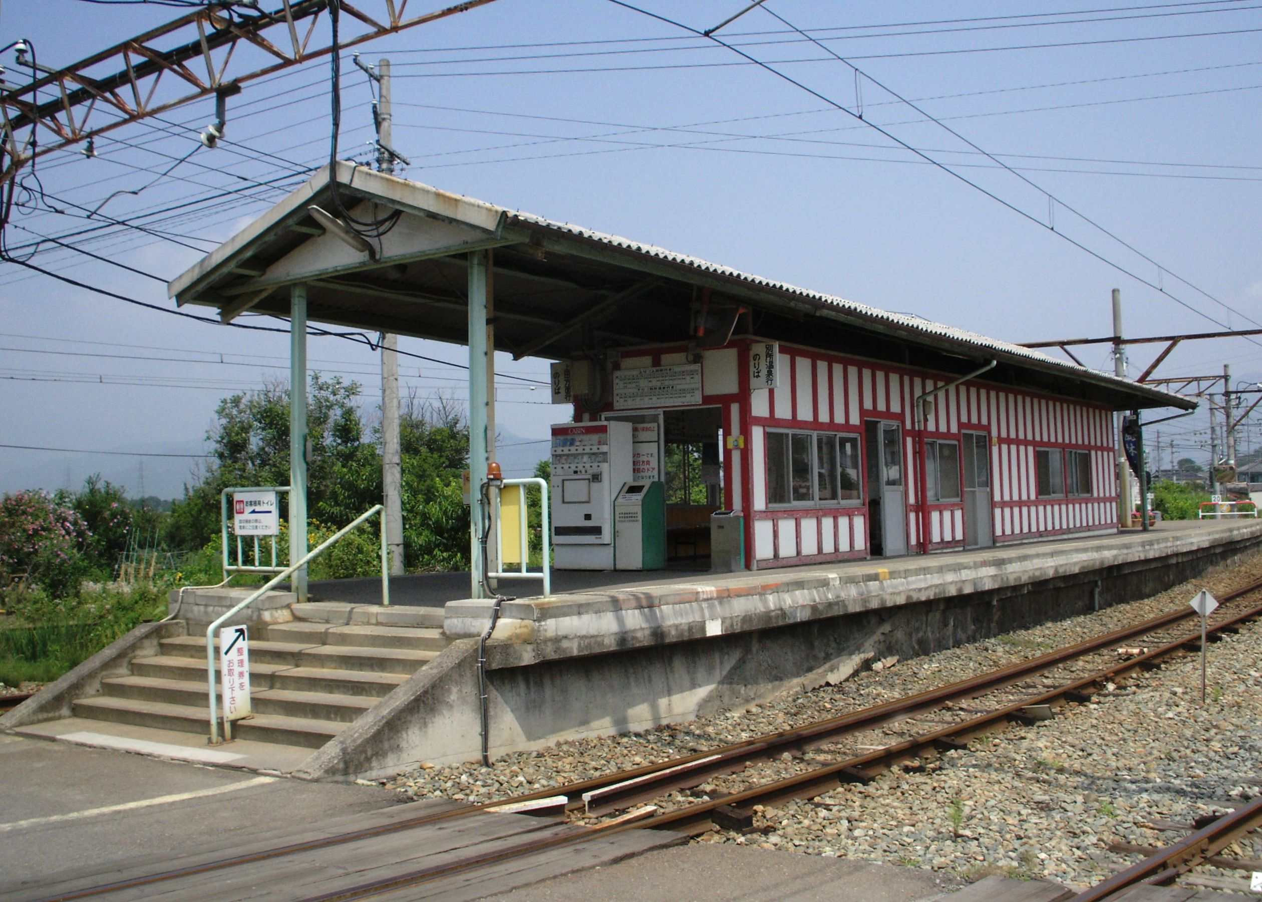 Shimonogo Station